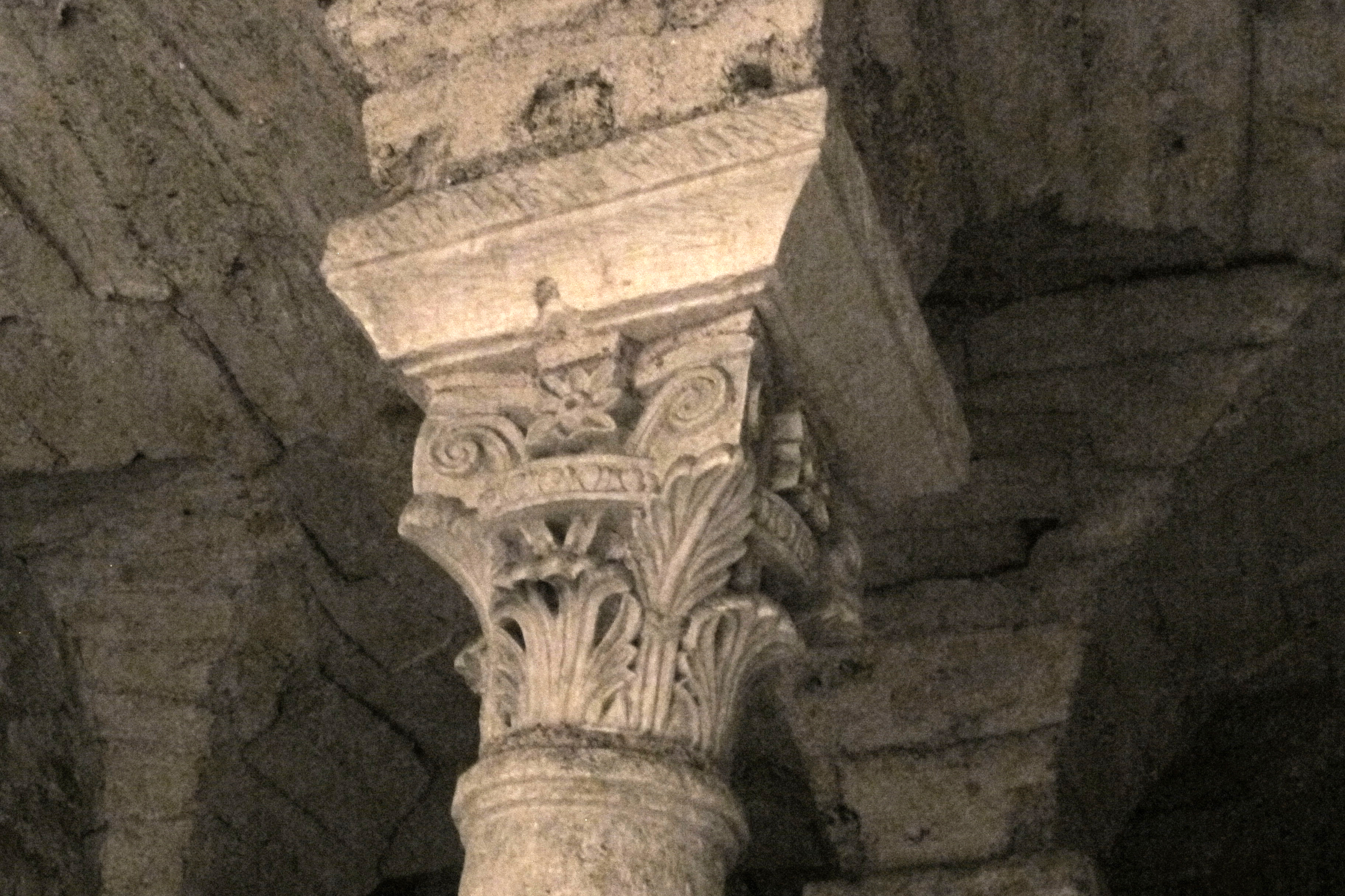 12th century capital in the Philibert chapel. (Restauration in 19th century.)